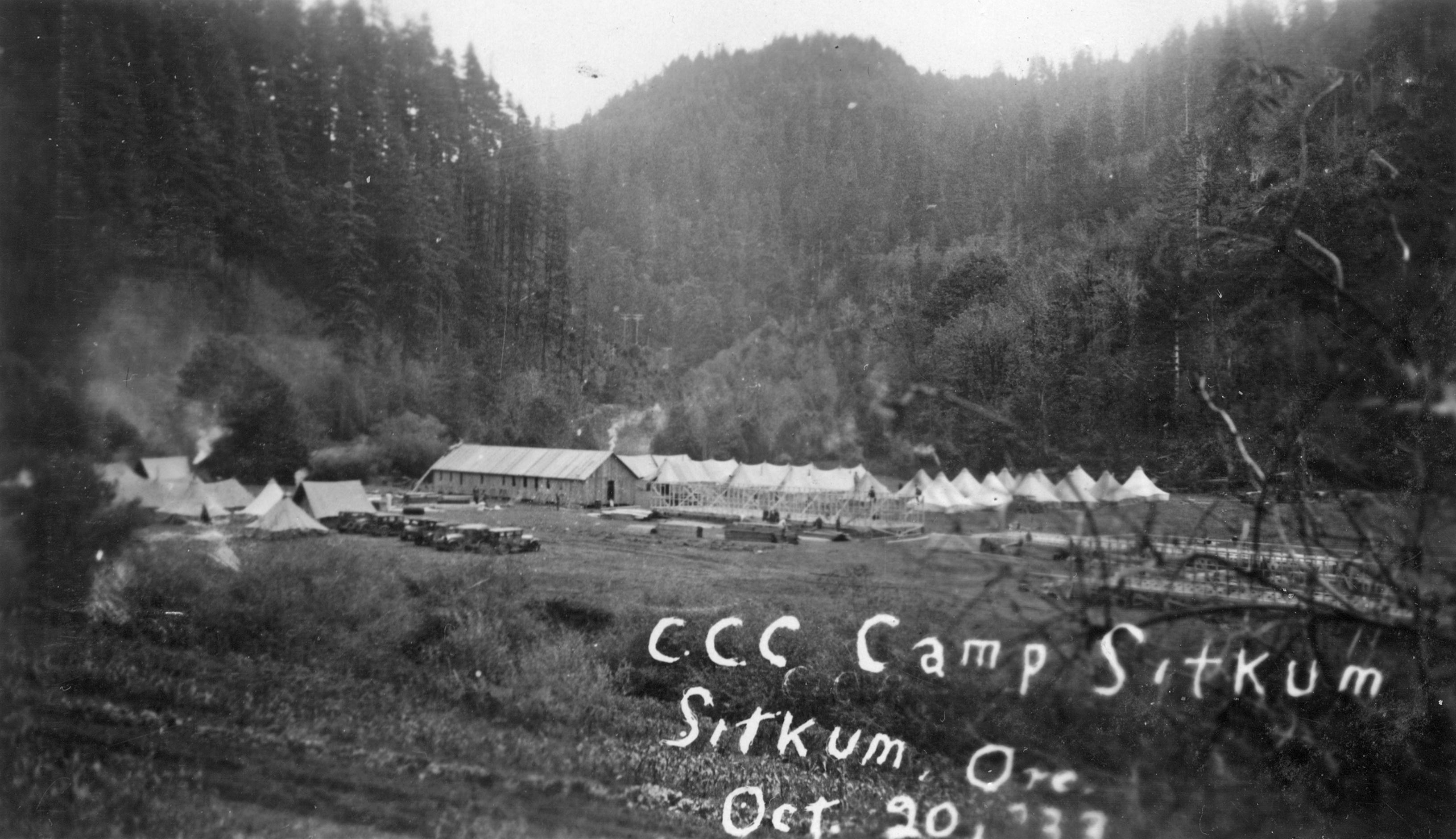 Original Collection: Gerald W. Williams Collection Item Number: WilliamsG:CCC Sitkum 1 You can find this image by searching for the item number by clicking here. Want more? You can find more digital resources online. We're happy for you to share this digital image within the spirit of The Commons; however, certain restrictions on high quality reproductions of the original physical version may apply. To read more about what “no known restrictions” means, please visit the Special Collections & Archives website, or contact staff at the OSU Special Collections & Archives Research Center for details.